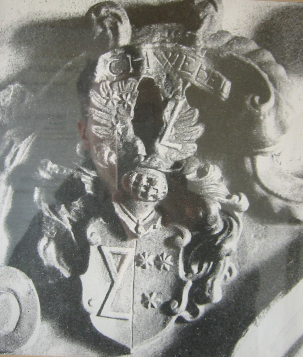 Crest of Arms of Johann Schwebel (german church reformer)